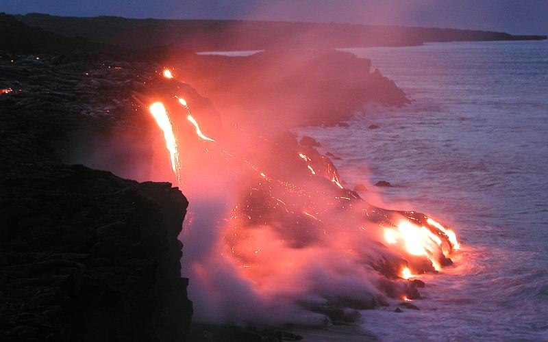 Mother’s Day flow enters the ocean at West Highcastle, seen from west at 05:26. Lava cascades down sea cliff and moves across bench, which has greatly enlarged seaward in past two days. Lava then pours off front of bench into water. Sea cliff is 8–10 m high.